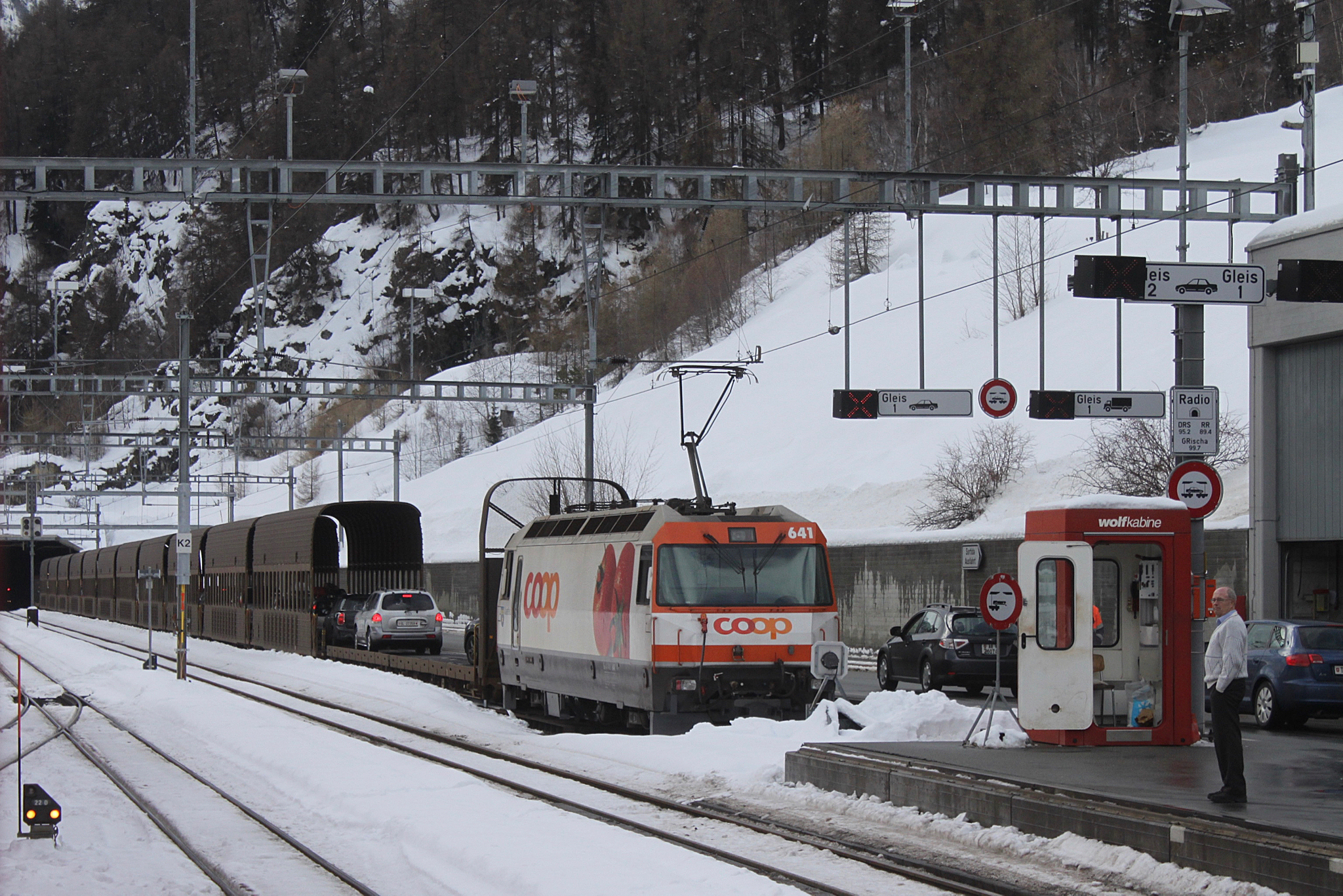 RhB Ge 4/4 III 641 at Sagliains railway station with a Vereina tunnel car shuttle.